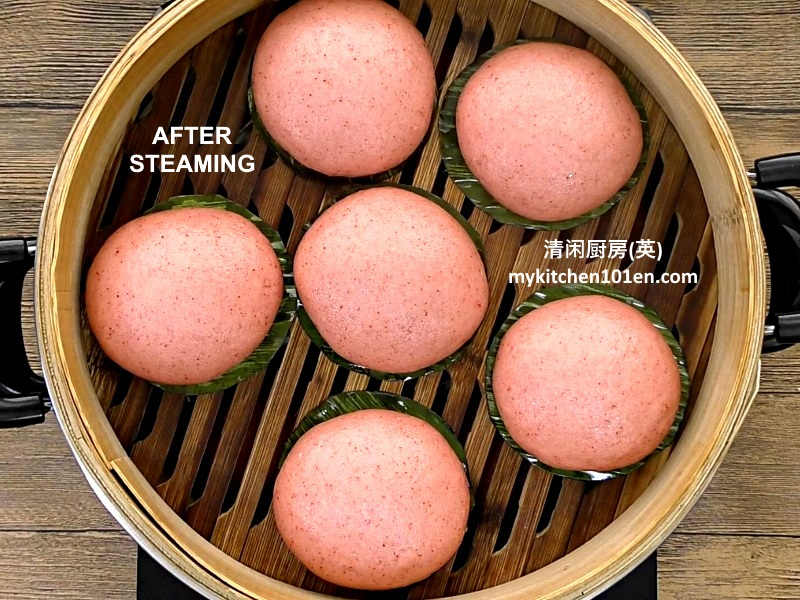 Traditional red Hee Pan after steaming